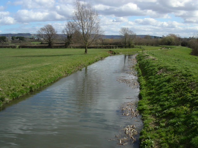 The river Cam in Gloucestershire. This 1.6Km section of the river Cam lies between Cambridge and the Gloucester and Sharpness canal.